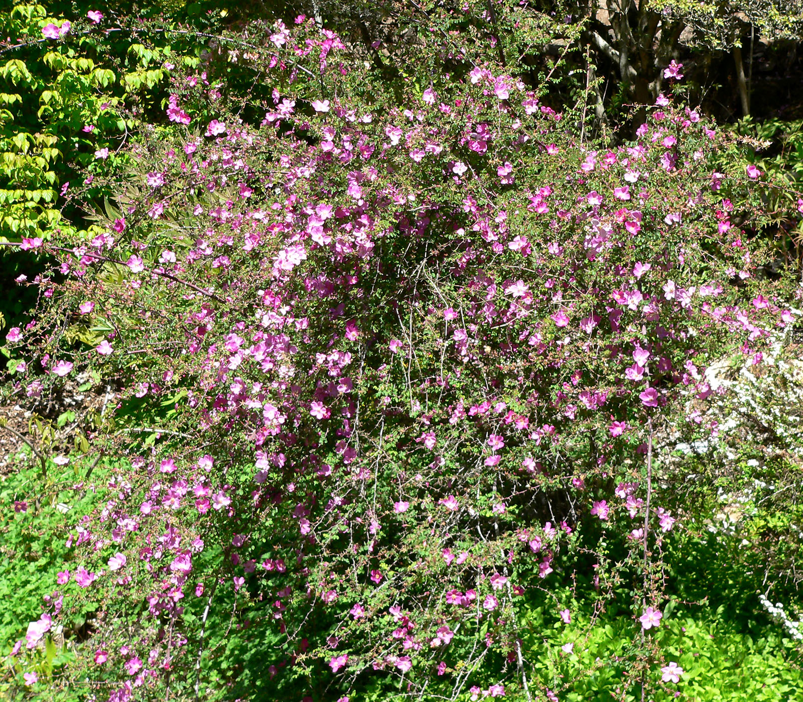 Rosa willmottiae at the University of California Botanical Garden, Berkeley, California